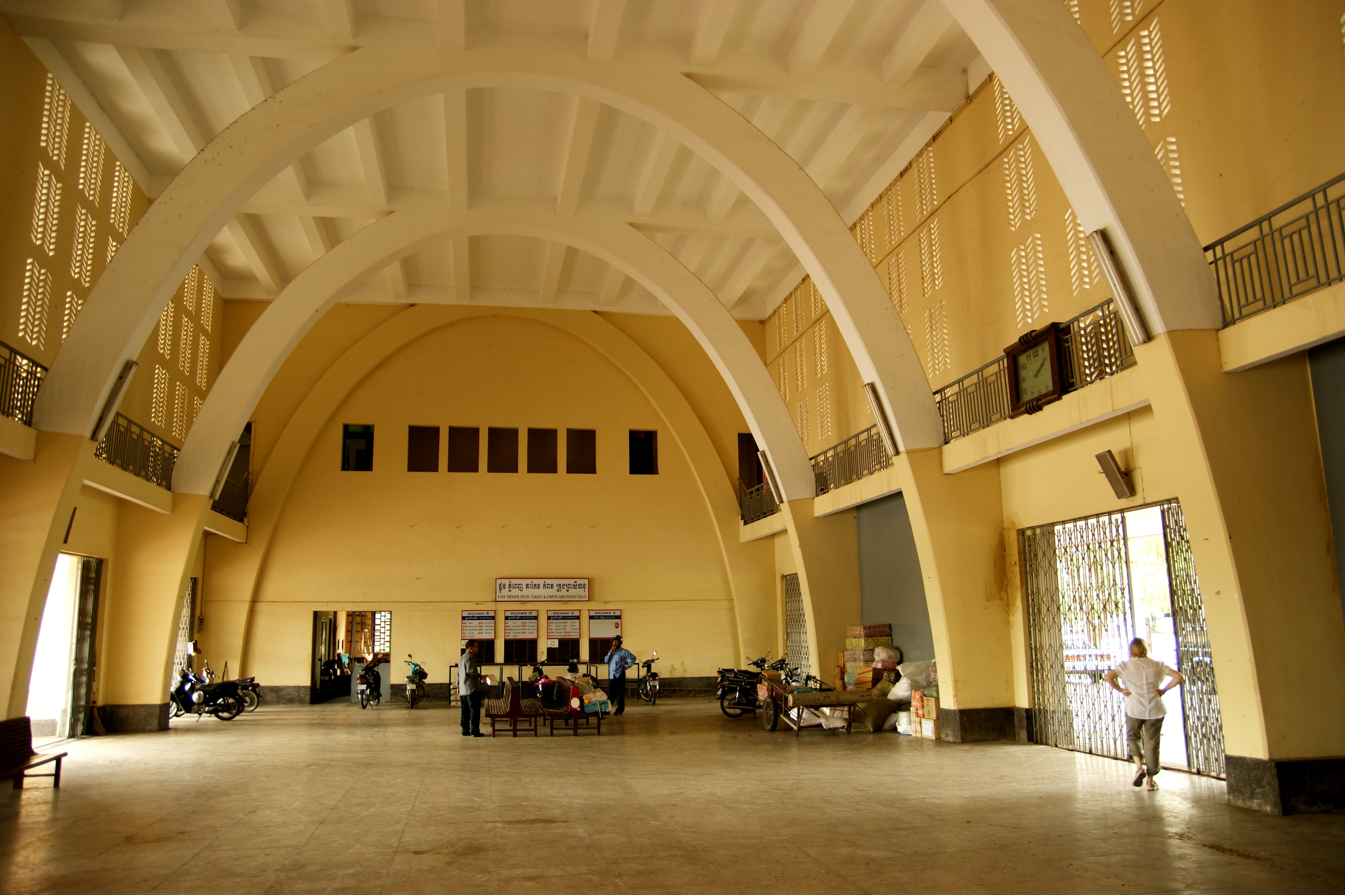 Rail station in Phnom Penh 2009-09-07